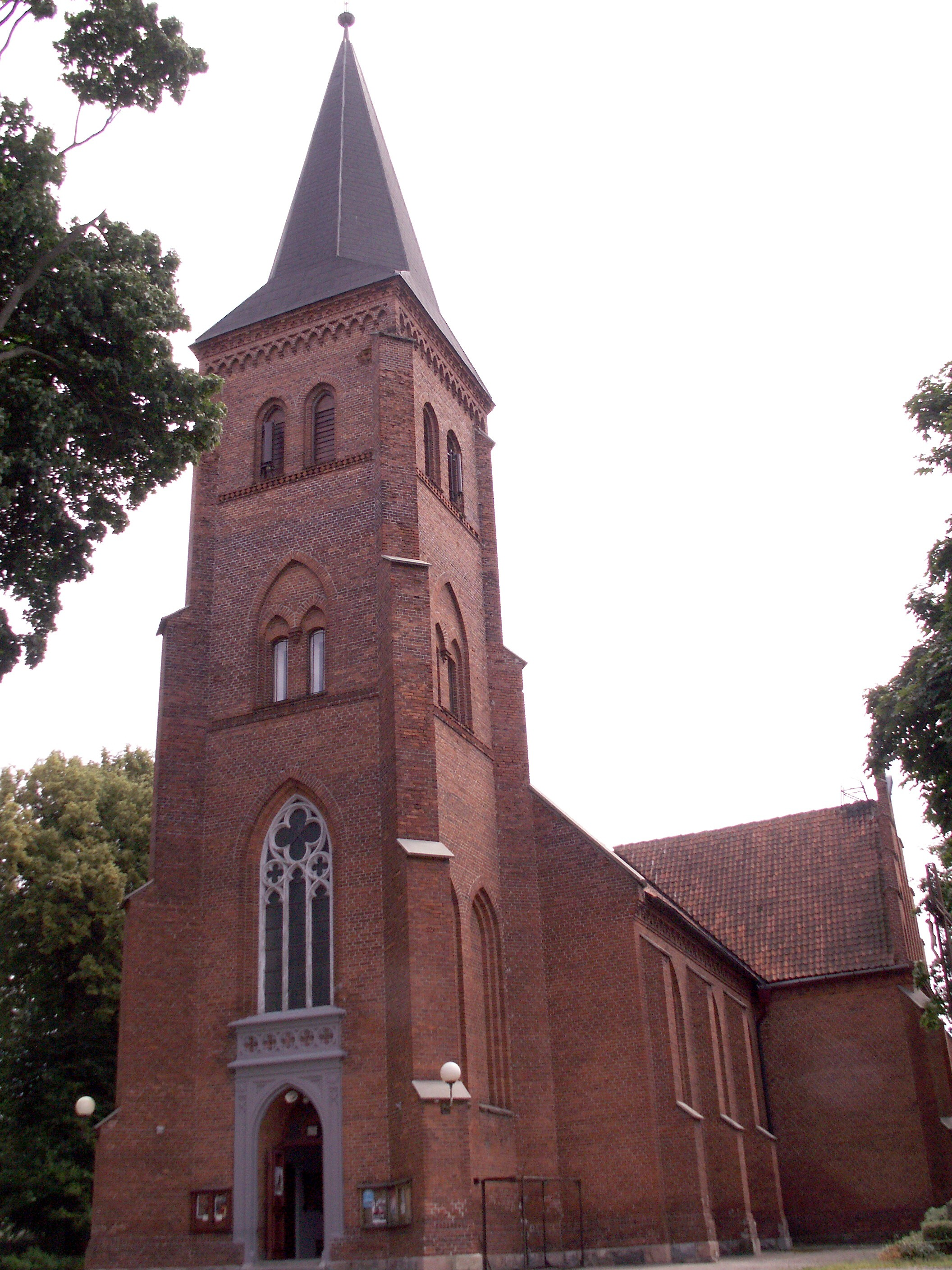 Sacred Heart church in Olsztynek, Poland